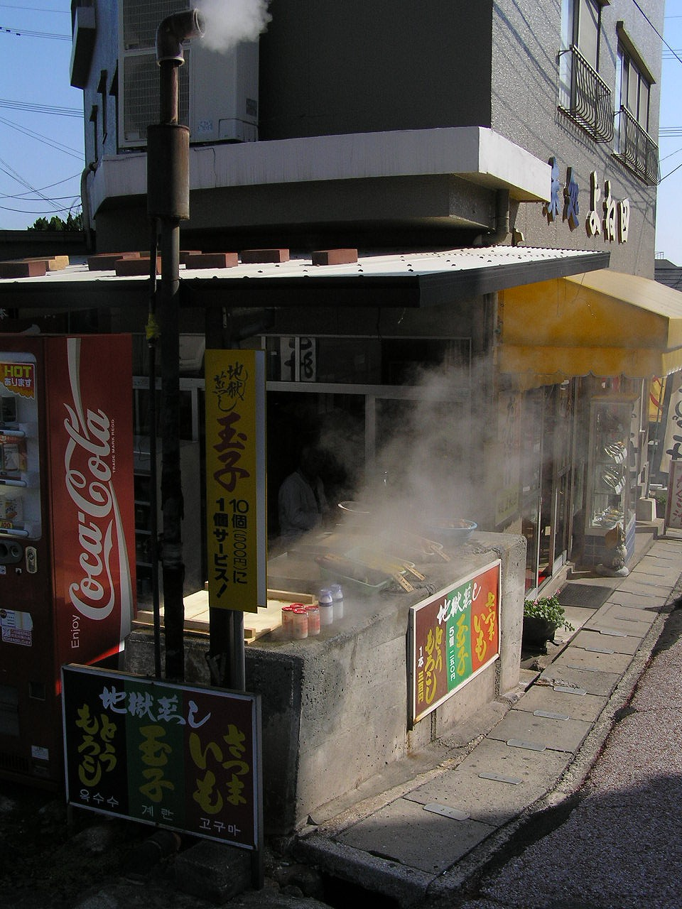 Onsen Tamago